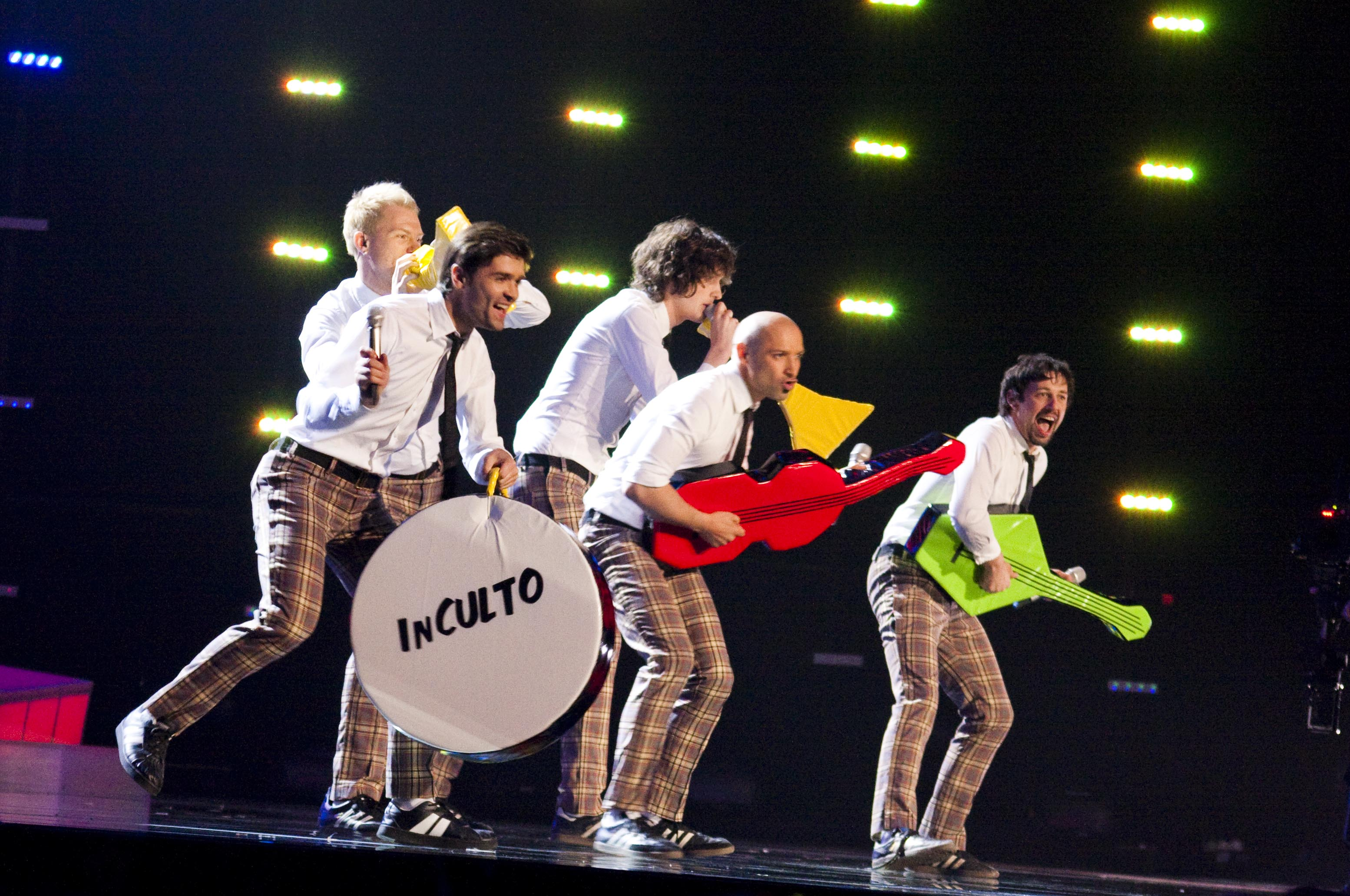 Inculto (stylised "InCulto") music group. Foto: Ane Charlotte Spilde, Aktiv I Oslo.no